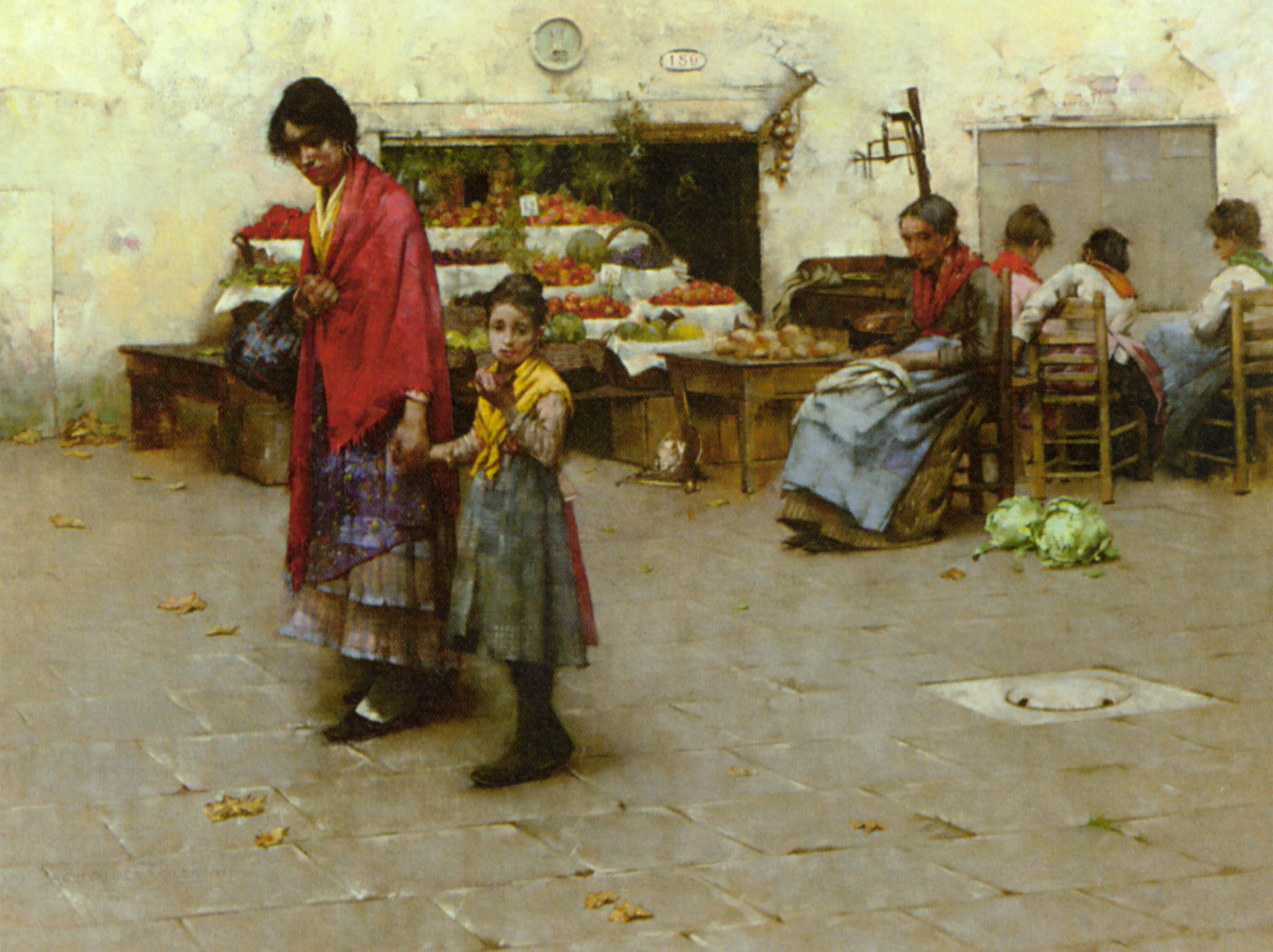 A Day at the Market